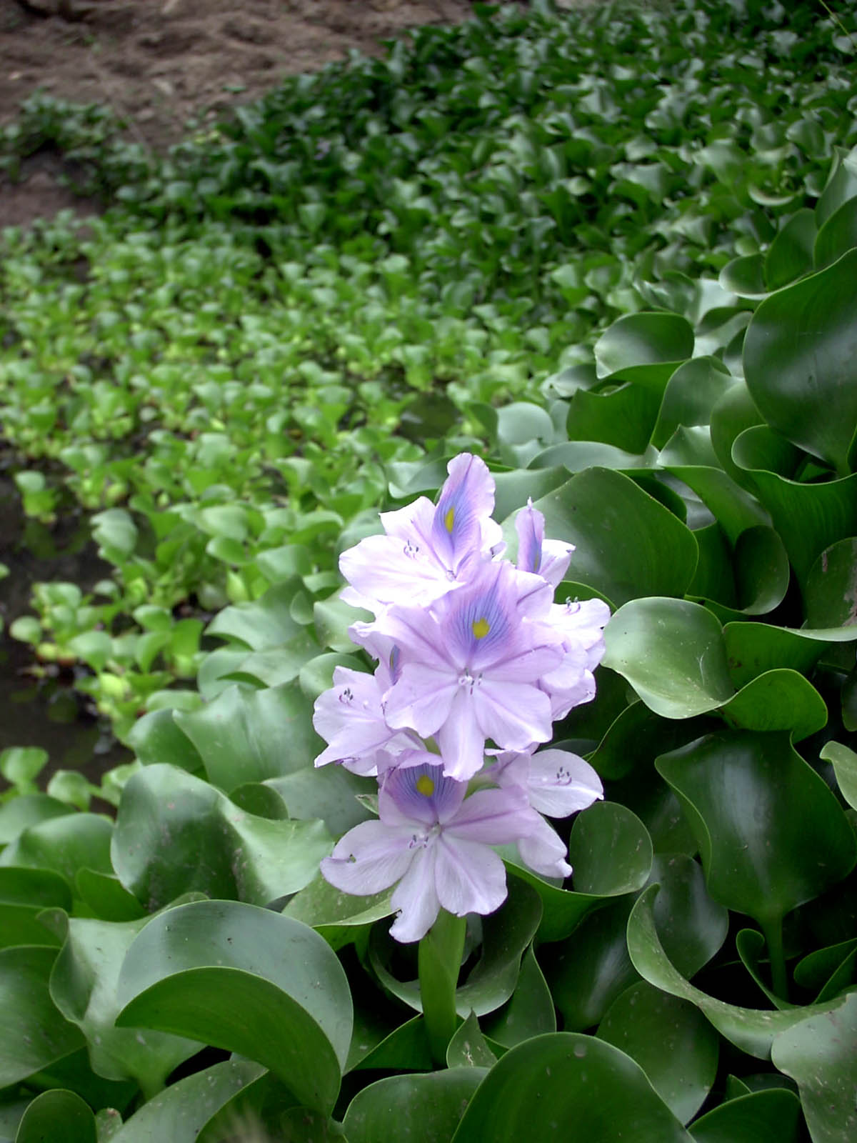 The Common Water Hyacinth photographed near Ensenada, Baja California near the water's edge of a tarn.